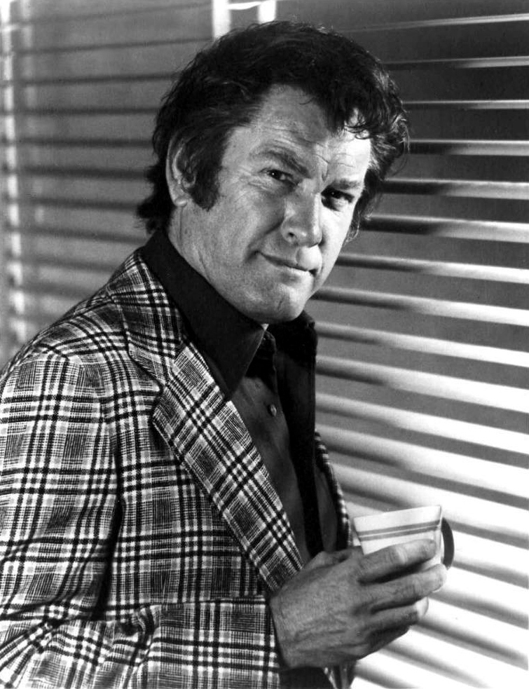 Publicity photo of Earl Holliman for Police Woman